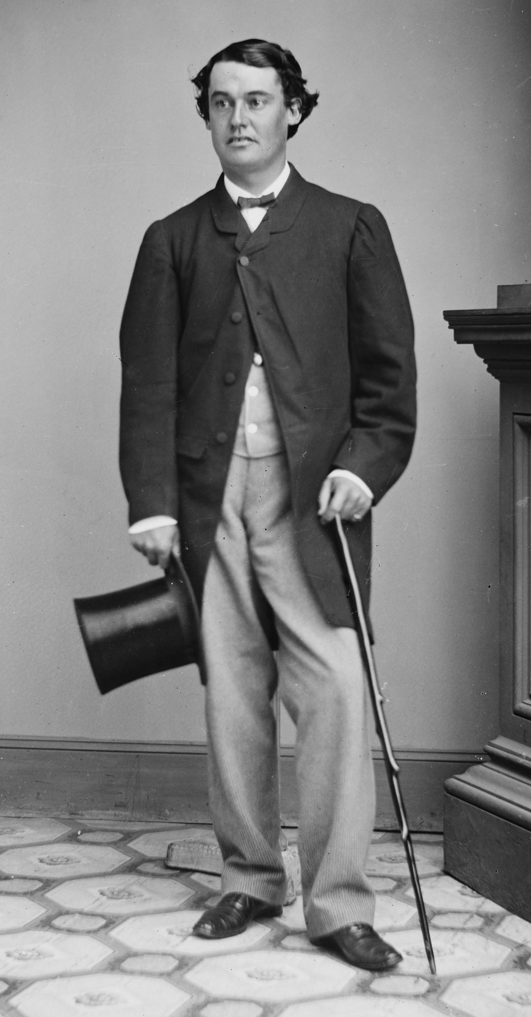 Abram Stevens Hewitt.